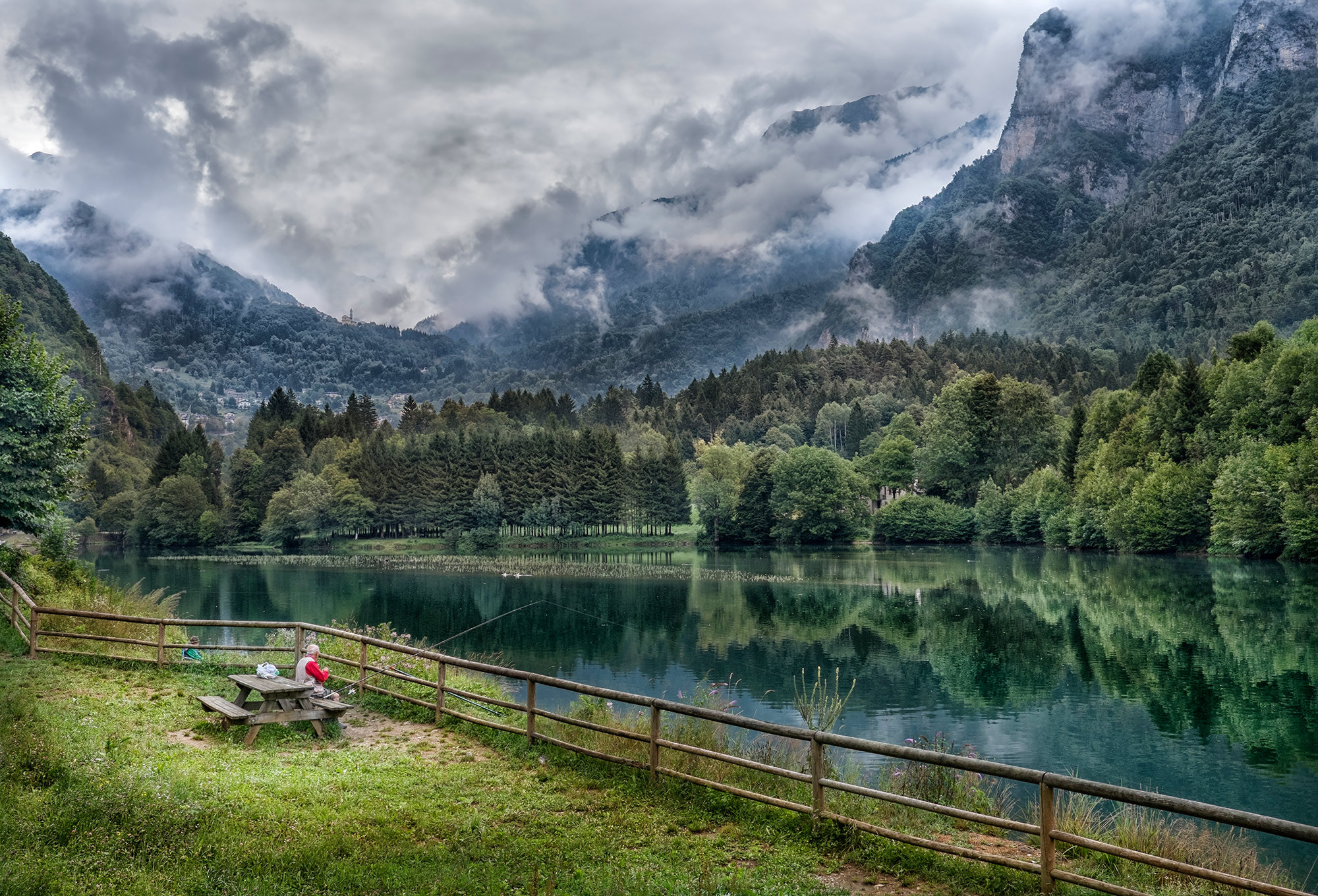 500px provided description: Moio De Calvi [#lake ,#italy ,#fisherman ,#fishing ,#lago ,#lombardy ,#pescatore ,#Val Brembana ,#Lombardia ,#Moio de Calvi]